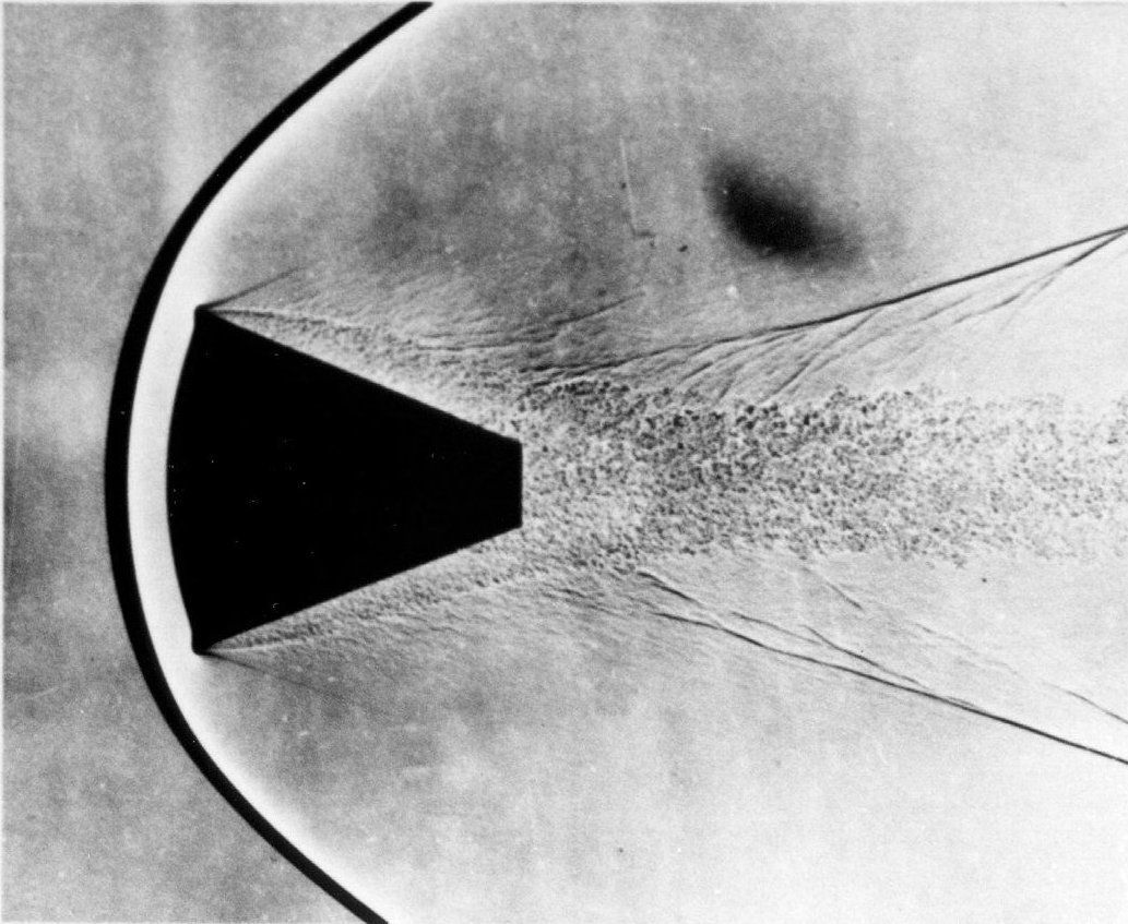 Shadowgraph photo of experiment with shape of Mercury spacecraft from 1960, showing a protective layer in front of the blunt end.